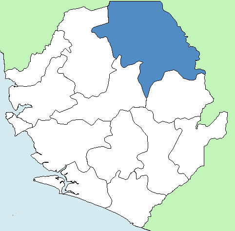 Map showing location of Koinadugu District in Sierra Leone